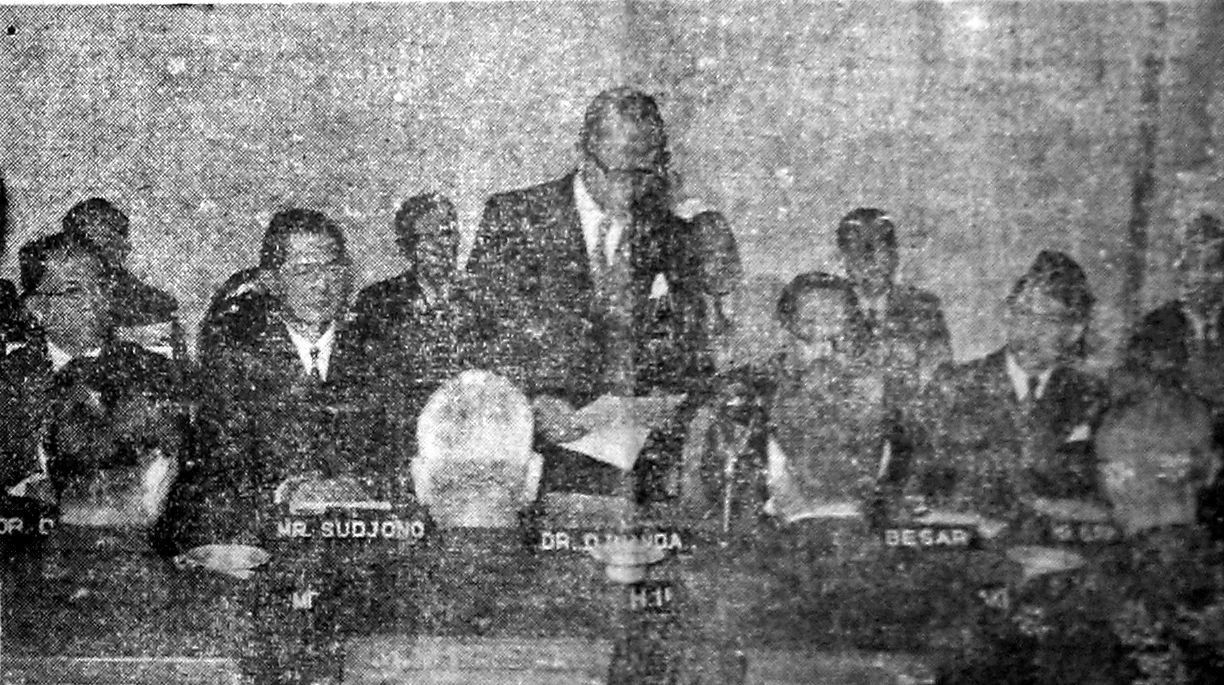 Djuanda speaking at a re-compensation meeting in Japan